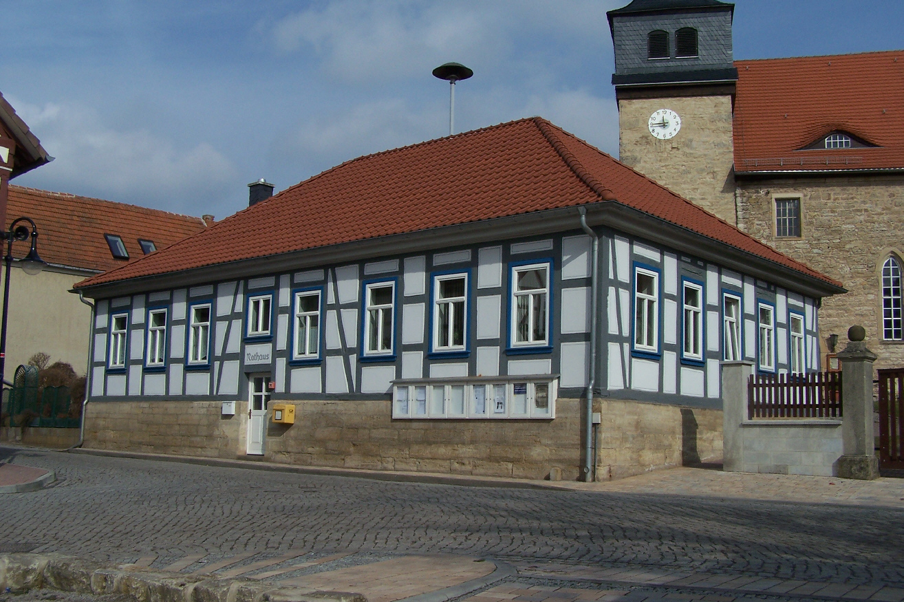 The administration building in Ifta.